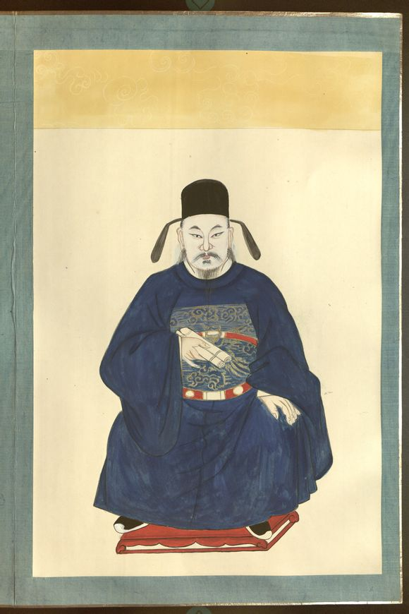 Mu Gong, a local commander of Lijiang